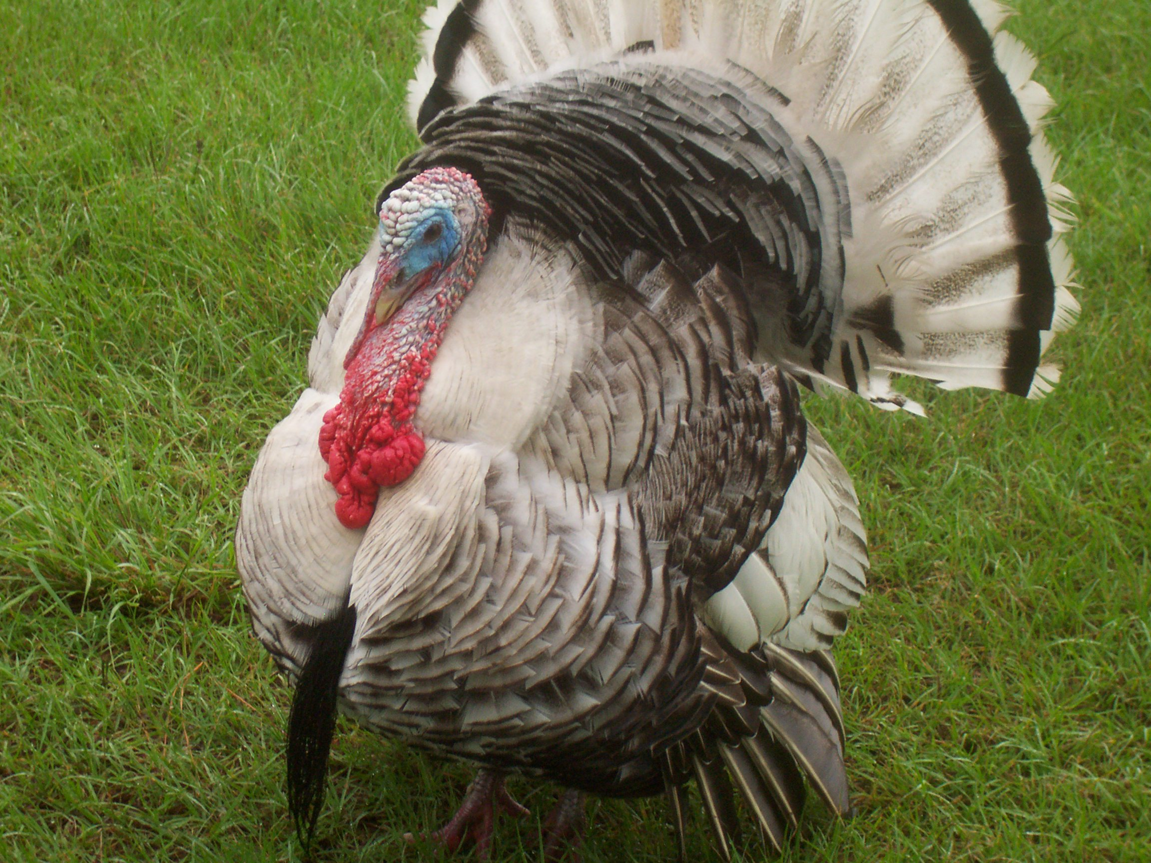 A picture taken of a Turkey.